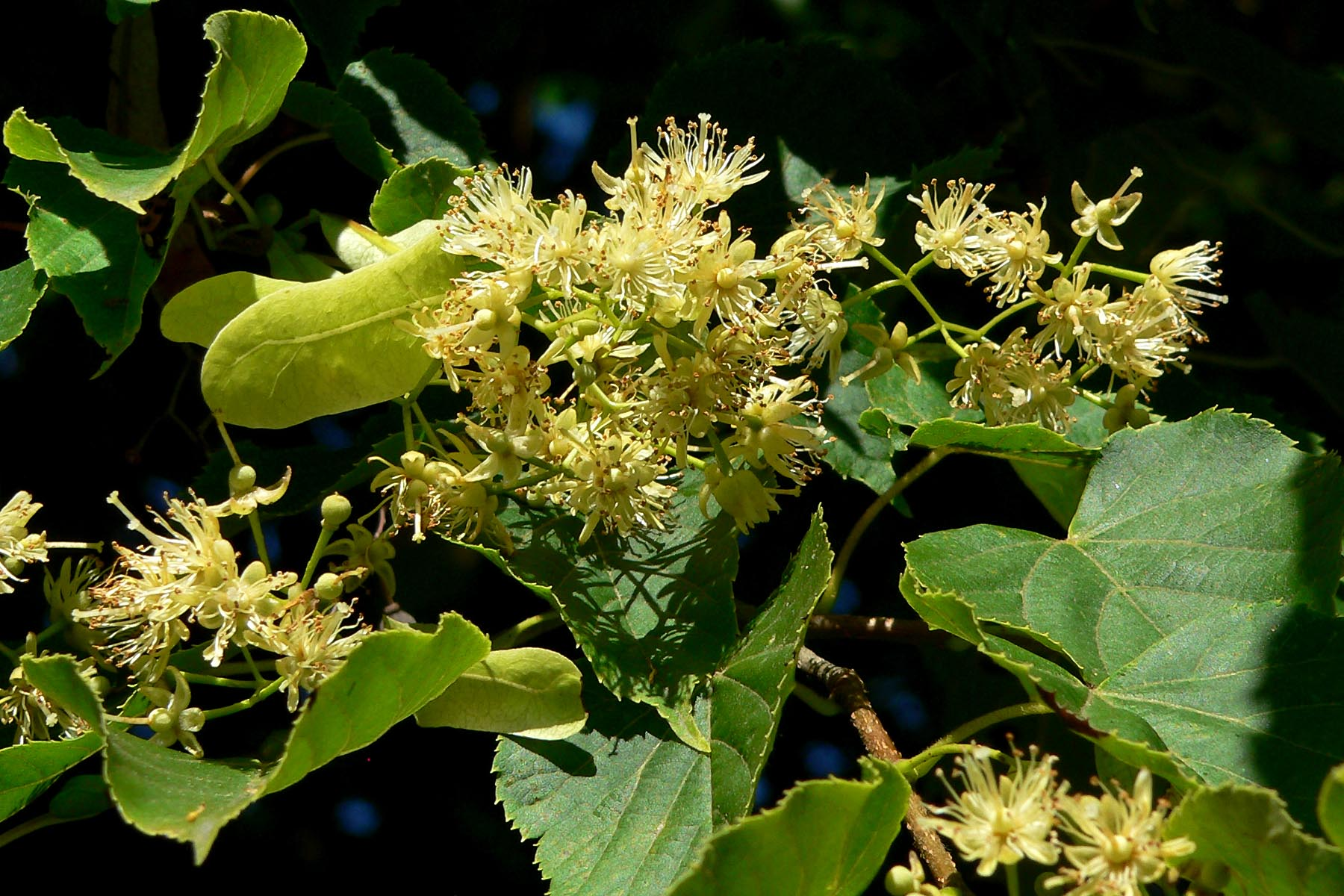 Photo of Tilia insularis at VanDusen Botanical Garden